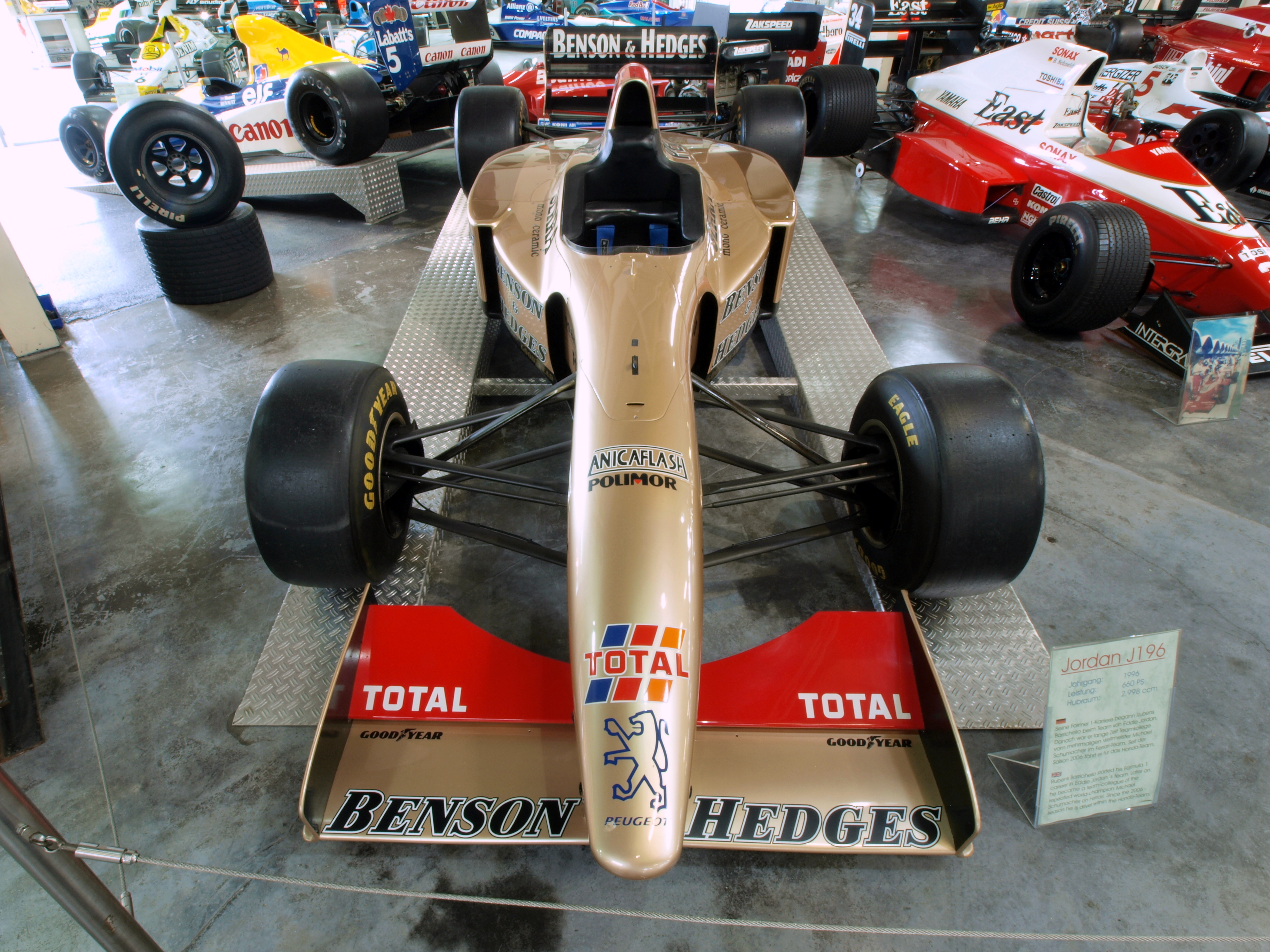 Photographed at the Auto & Technic museum Sinsheim.